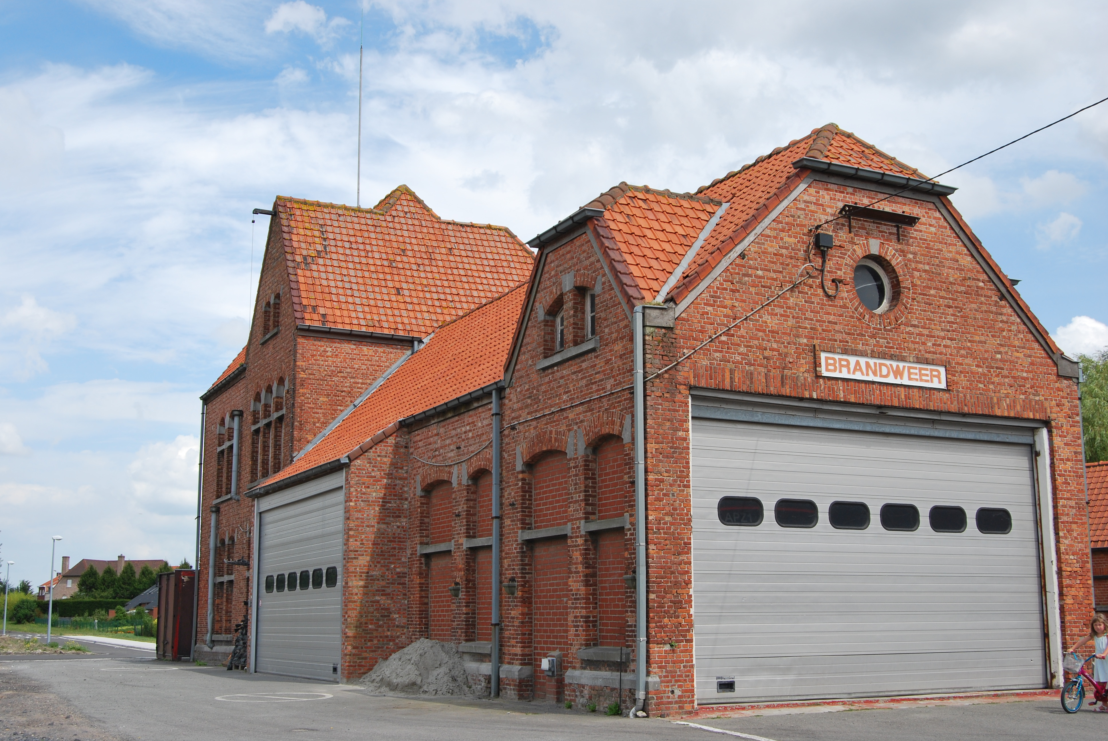 Station from Zonnebeke